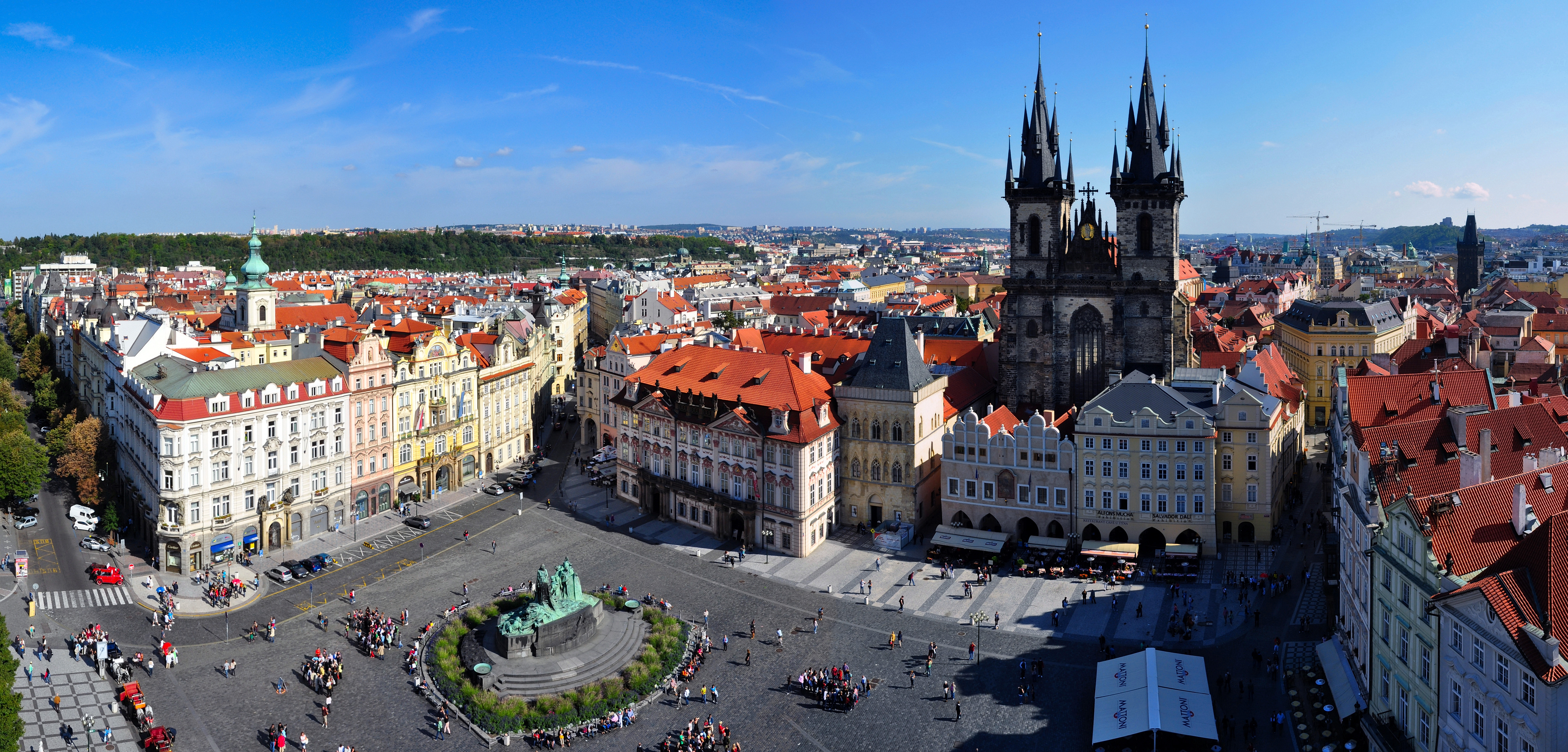 panoramic view of Old Town Square (Staroměstské náměstí) seen from the tower of the historic town hall, the statue in the center of the square is known as the Jan Hus Memorial, on the right hand side you see the Gothic Týn Church, Prague, Czech Republic